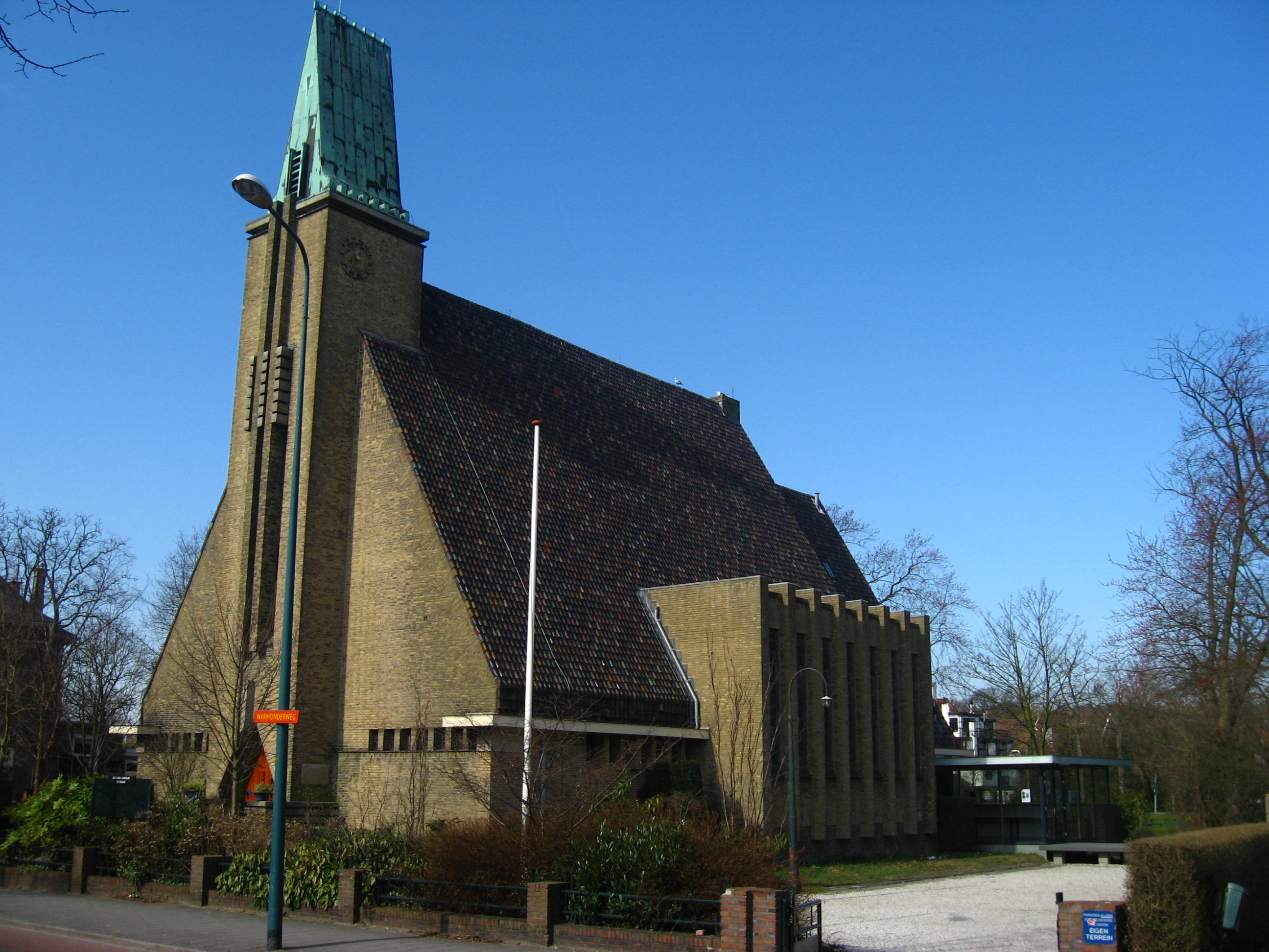 Saint Paul's church (Pauluskerk) in Oegstgeest. Built in 1932. Designed by the architect F.B. Jantzen